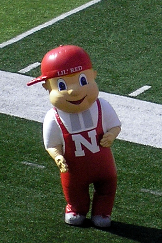 Lil' Red (en), inflatable mascot of the athletics programs of the Nebraska Cornhuskers